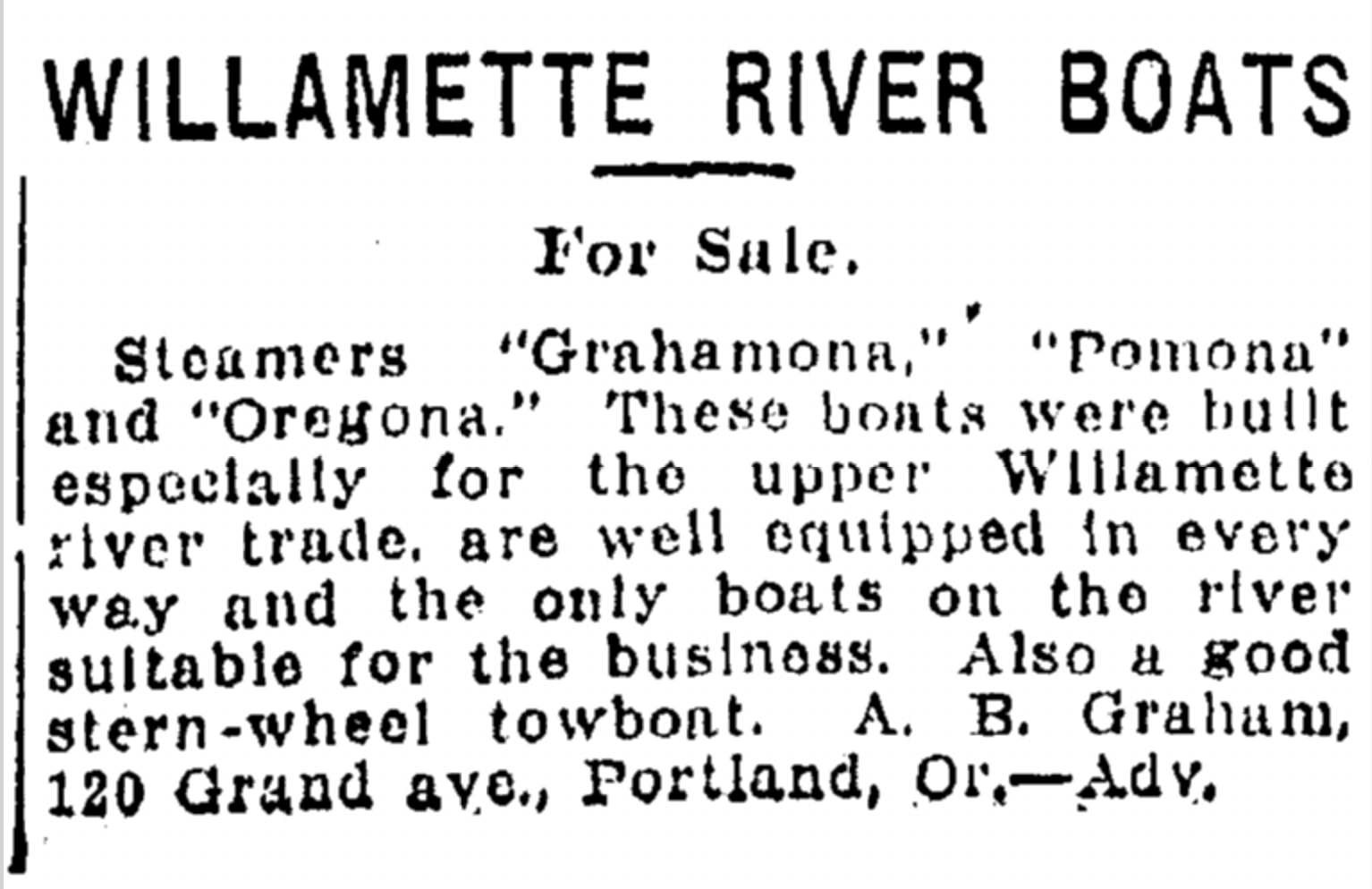 Advertisement placed by the Oregon City Transportation Company, known as the Yellow Stack Line, for the sale of its three steamers, Pomona, Grahamona, and Oregona, plus a towboat. Placed in Oregonian, August 3, 1919, page 48.